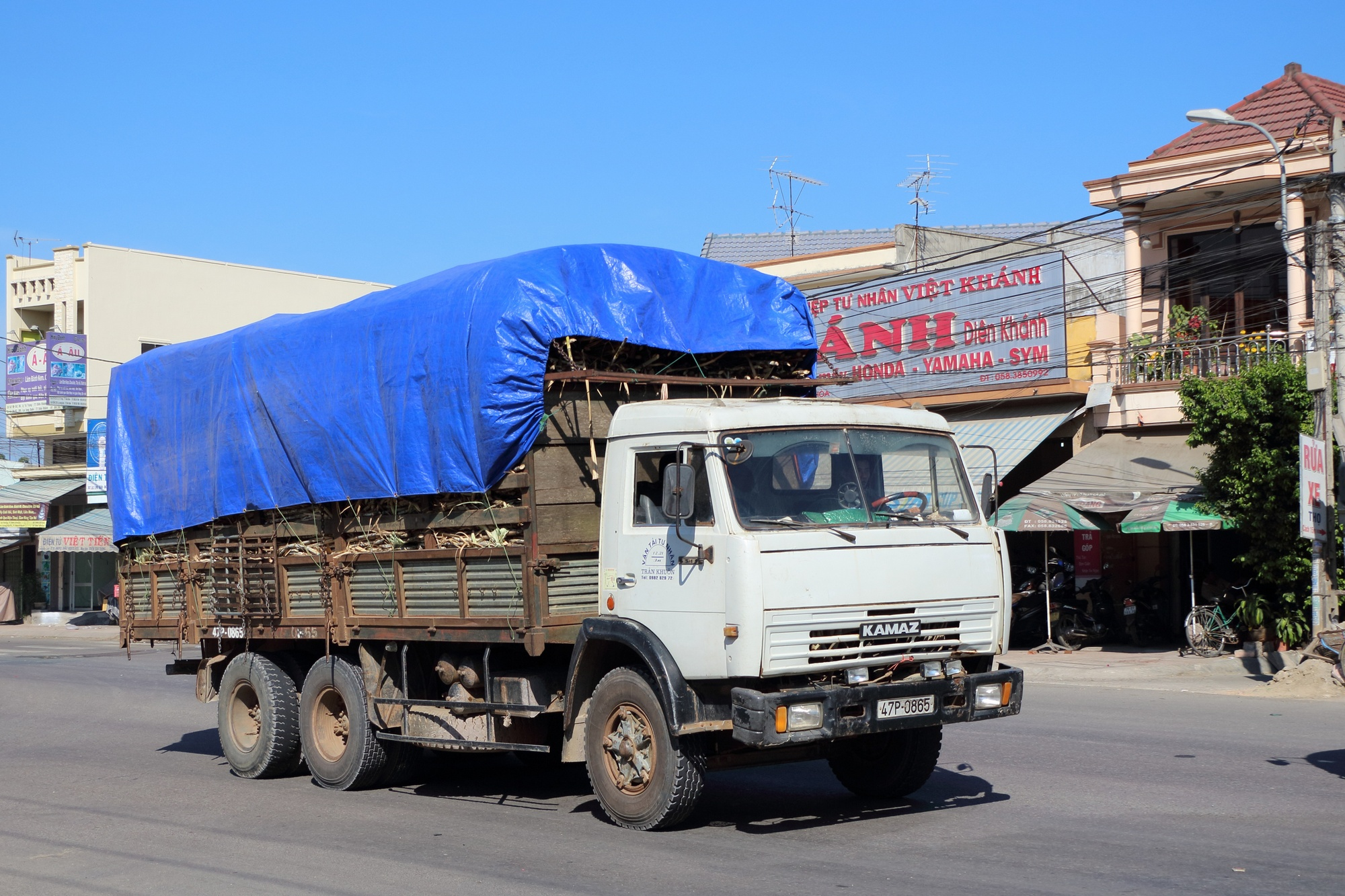 Kamaz truck in Vietnam